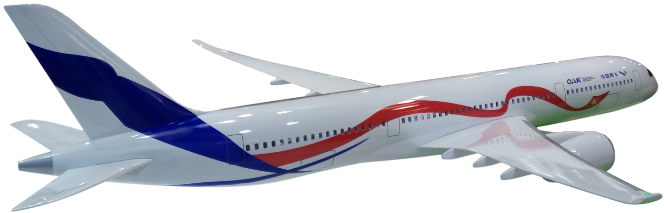 Paris Air Show 2017, Comac C929 mockup, clean background